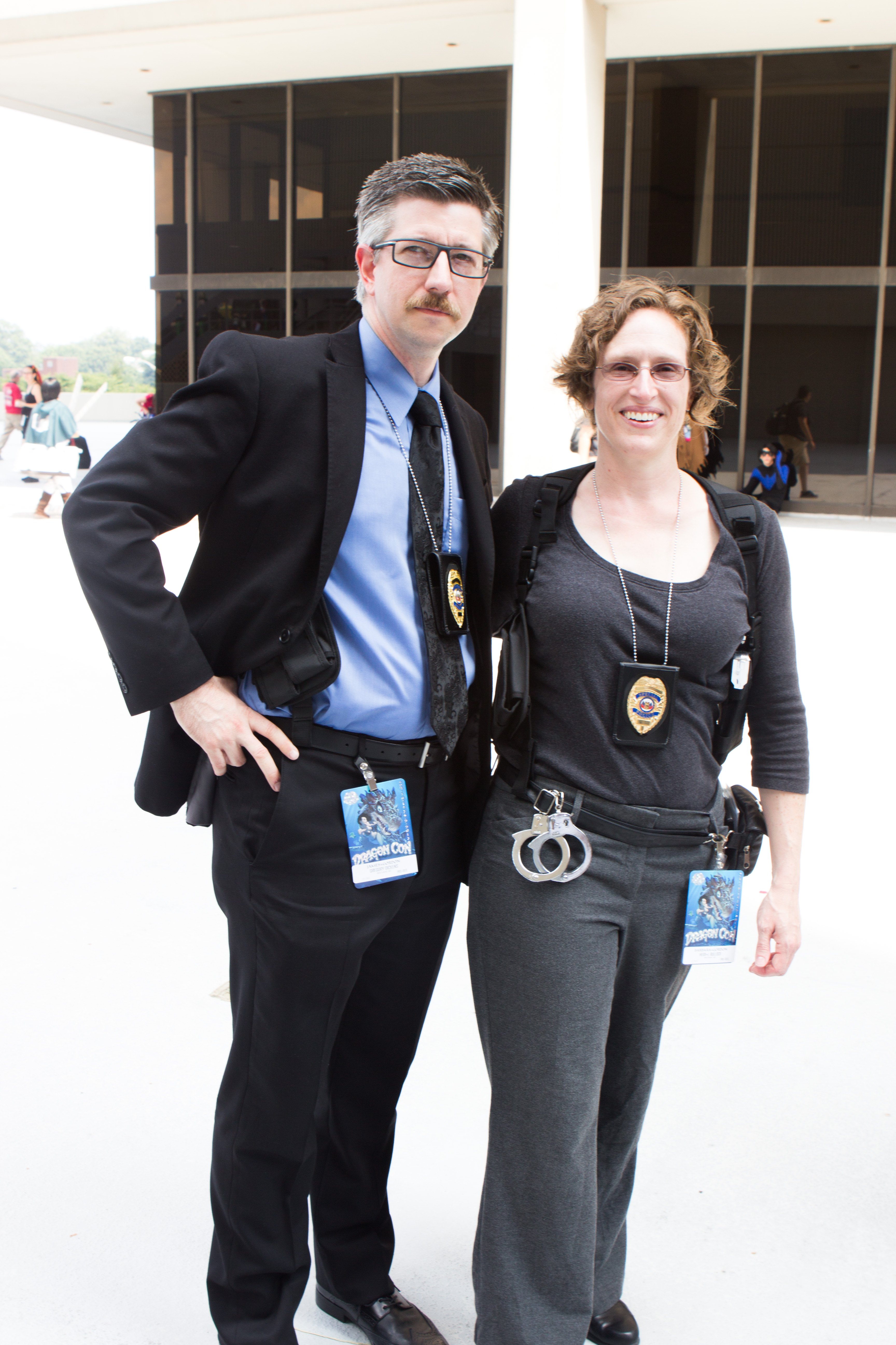 Cosplay of the Gotham City Police Department (GCPD) at Dragon*Con 2013, with Gregory Dickens as Commissioner Gordon on the left.